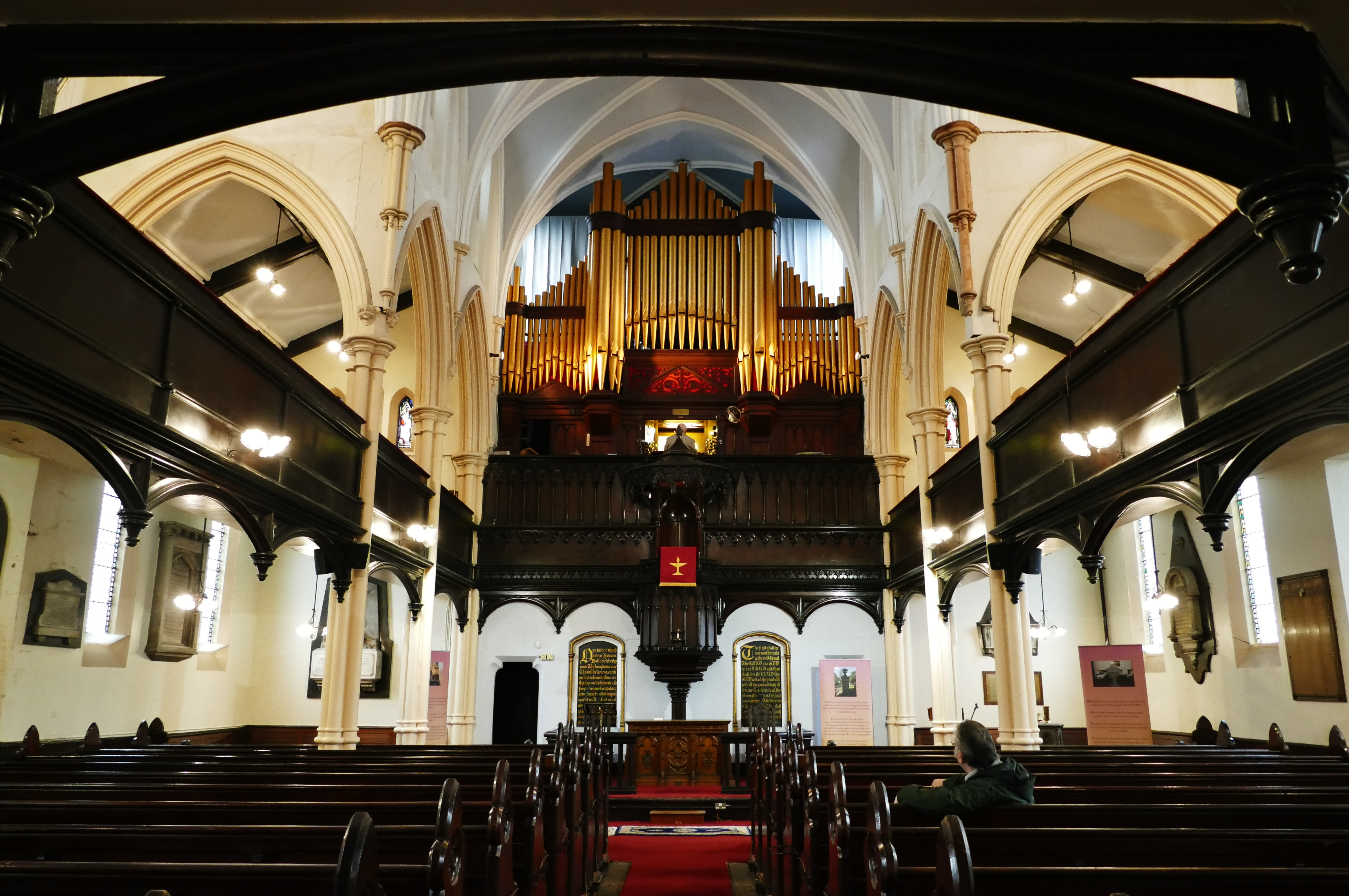 Old Chapel - interiro showing Organ, gallery,and pulpit